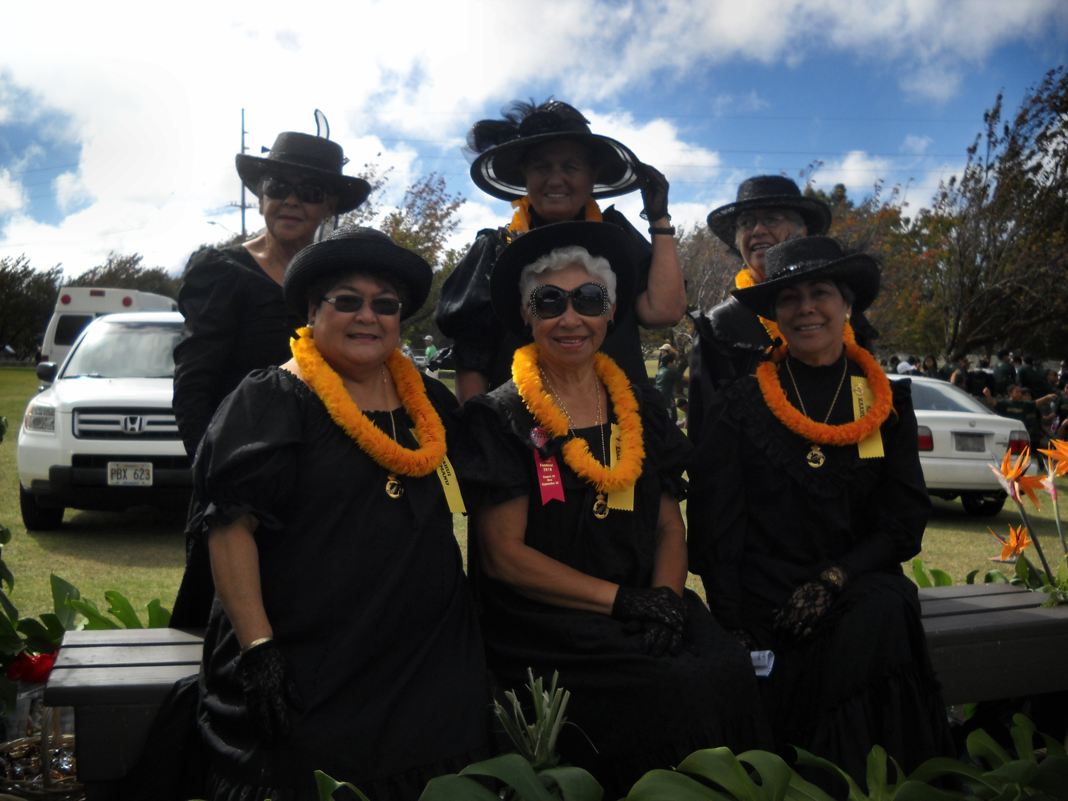 Ka'ahumanu Service Society